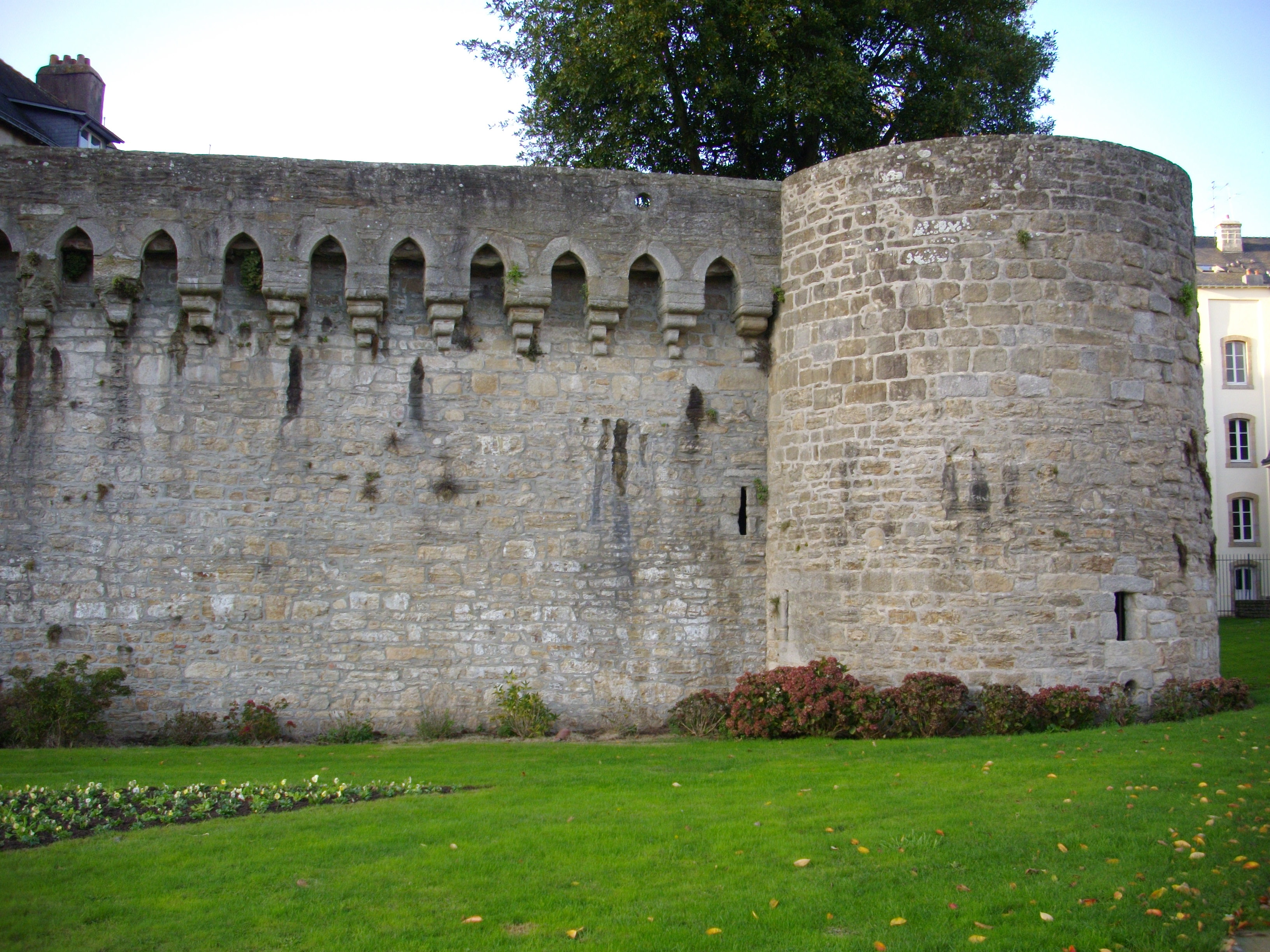 remparts of Vannes (Morbihan, France) - Tower "Joliette"